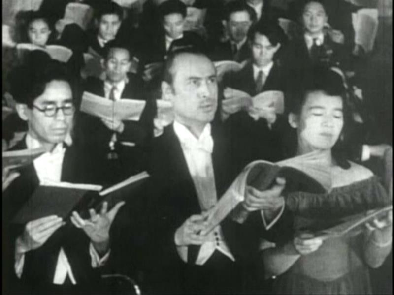 Performance of Beethoven "Fidelio". (From right to left) Harue Miyake (Soprano, Reonore), Yoshie Fujiwara (Tenor, Florestan) and Ryōsuke Hatanaka (Baritone, Don Fernando).